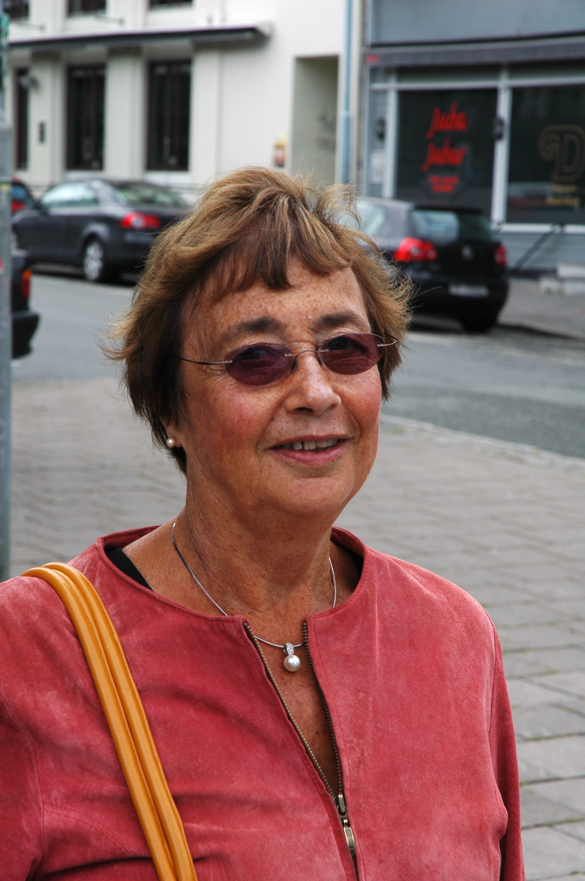 Vera Komissar, author in Norway, resident of Trondheim